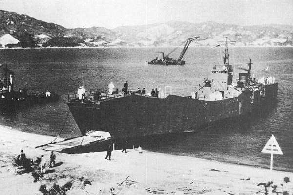 Japanese landing ship No.149 on test at Ohsako beach of Kurahashi Island.